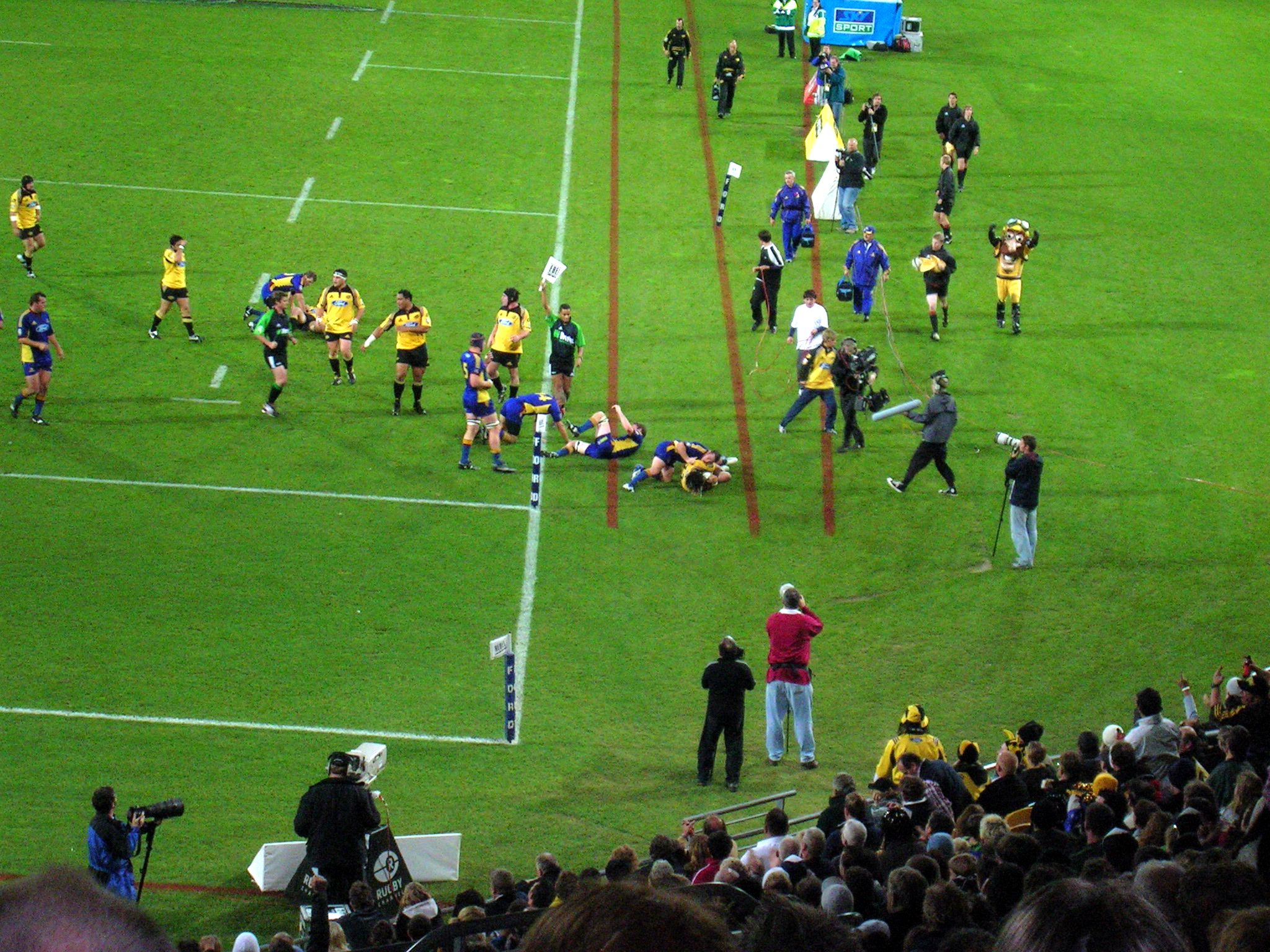 The Hurricanes playing the Highlanders at Westpac Stadium. Source= Author=glutnix